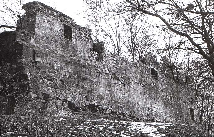 Part of south wall of High Palace in Lviv